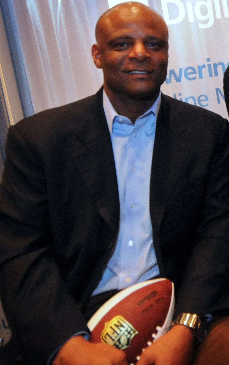 Former Houston Oilers, Minnesota Vikings, Seattle Seahawks e Kansas City Chiefs QB Warren Moon